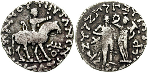 Coin of the Indian-Scythian king Zeionises